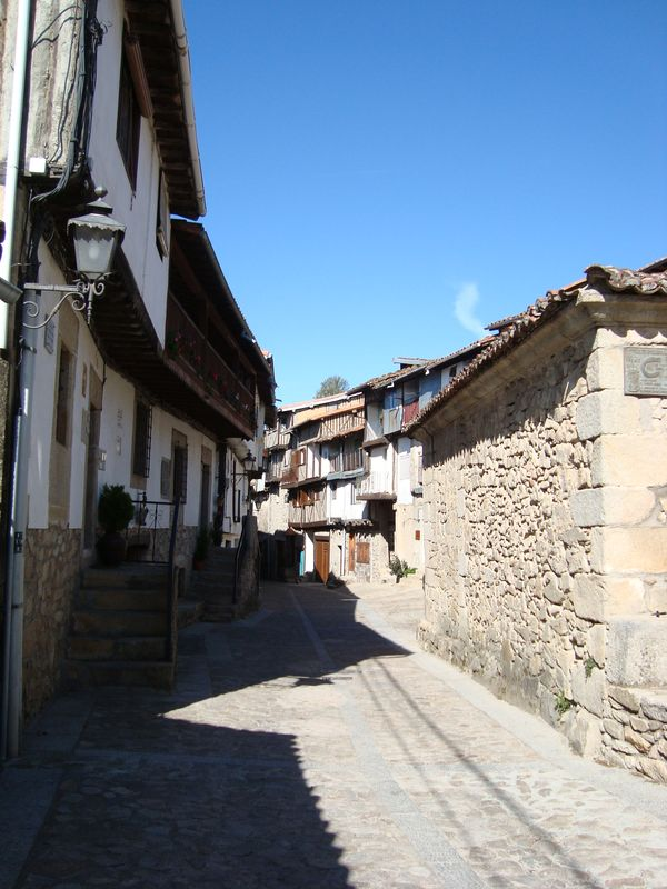 Street of Mogarraz (Salamanca, Spain)